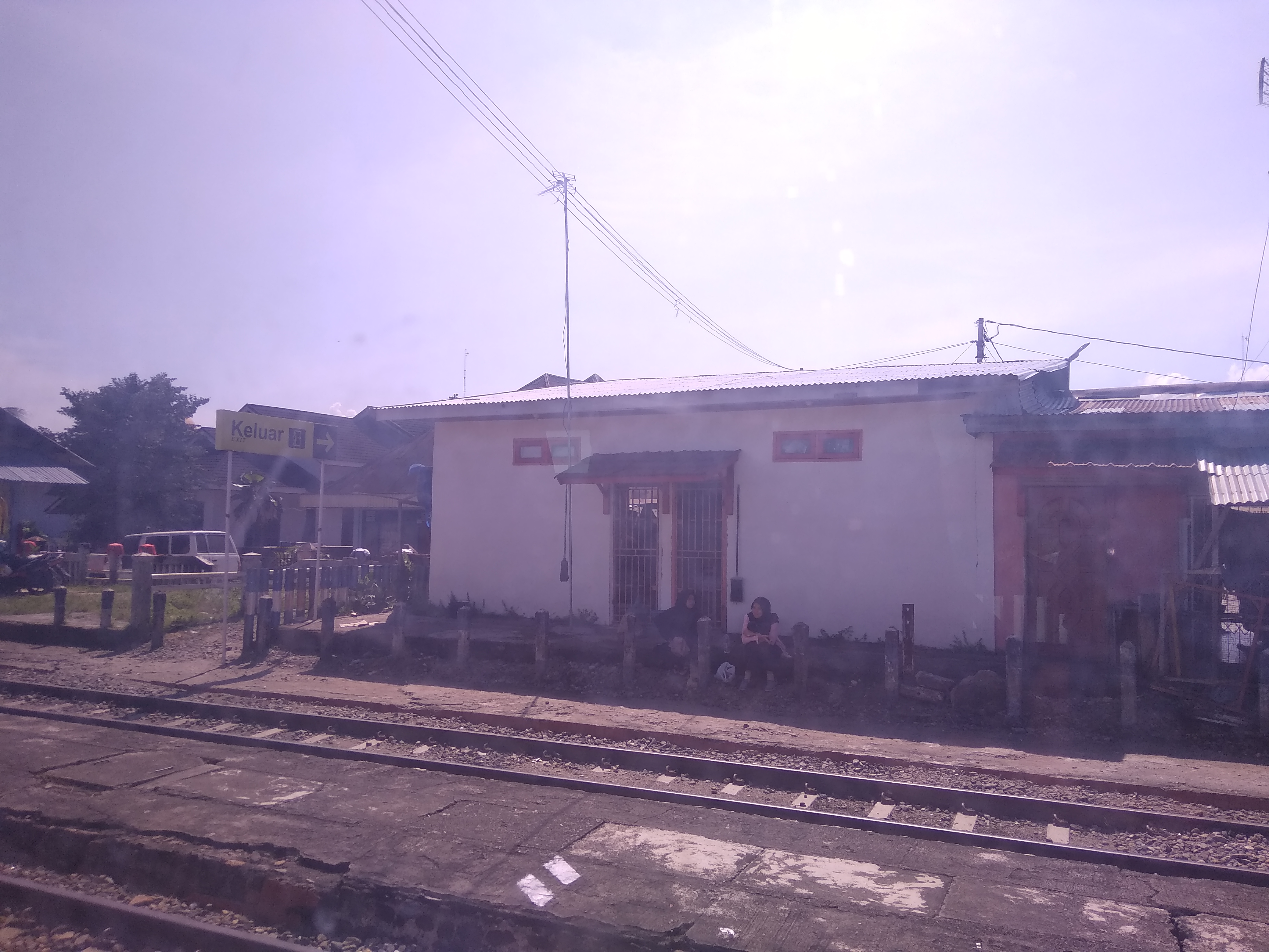 Lubuk Alung train station in Padang Pariaman Regency, West Sumatra, Indonesia. The station was photographed from the Sibinuang Railway in the Padang-Pariaman line.